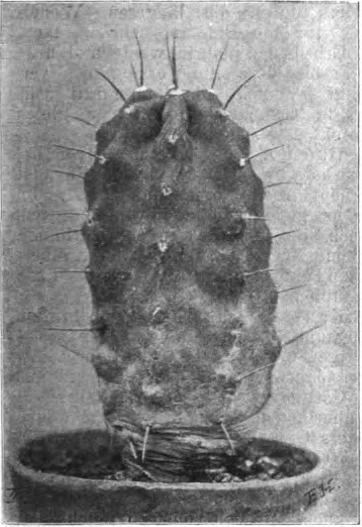 Echinocereus monacanthus Heese (= Echinocereus coccineus Engelm.)